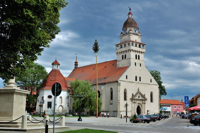 Freedom square in Slovakia